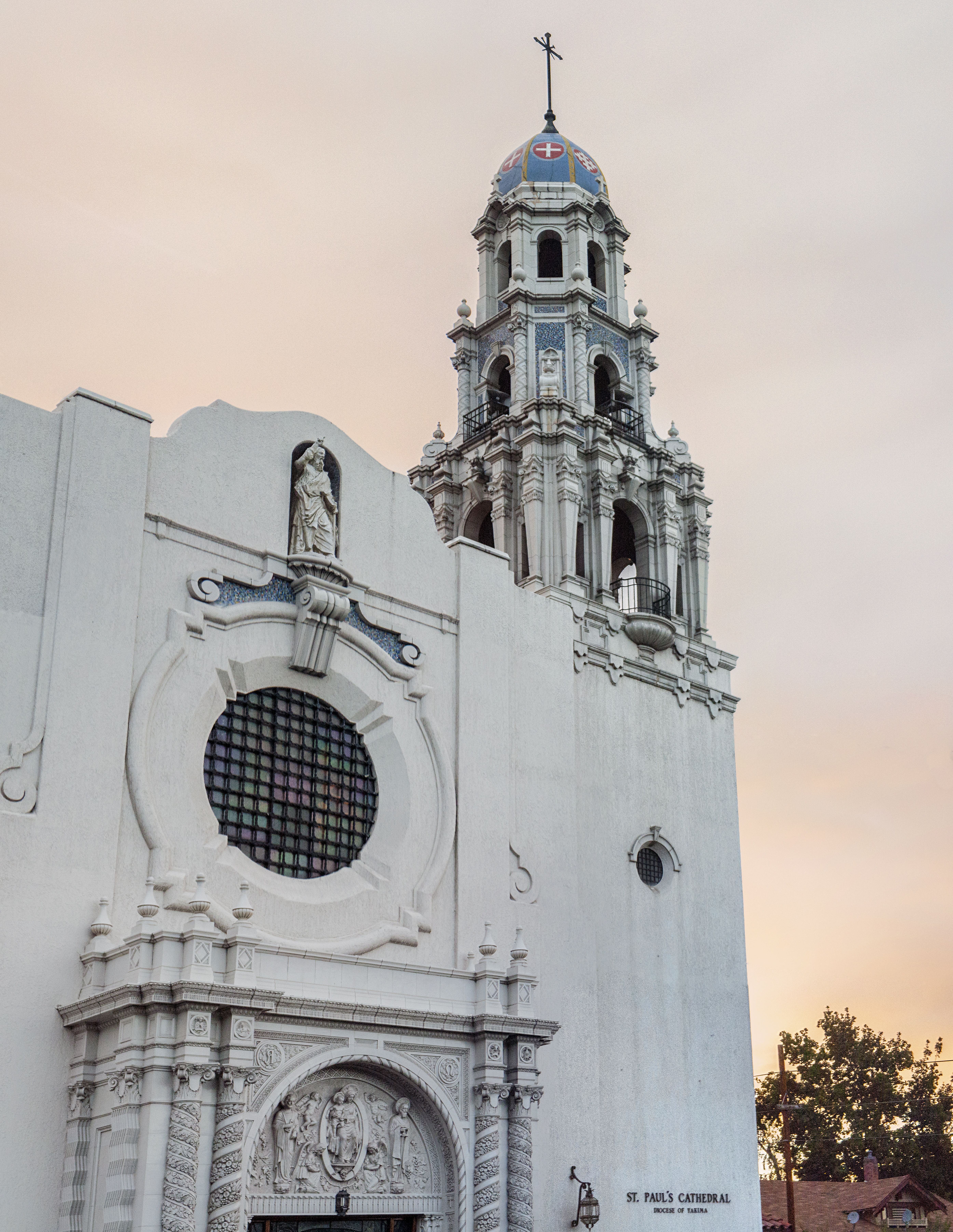 St. Paul's Cathedral in Yakima, Washington.